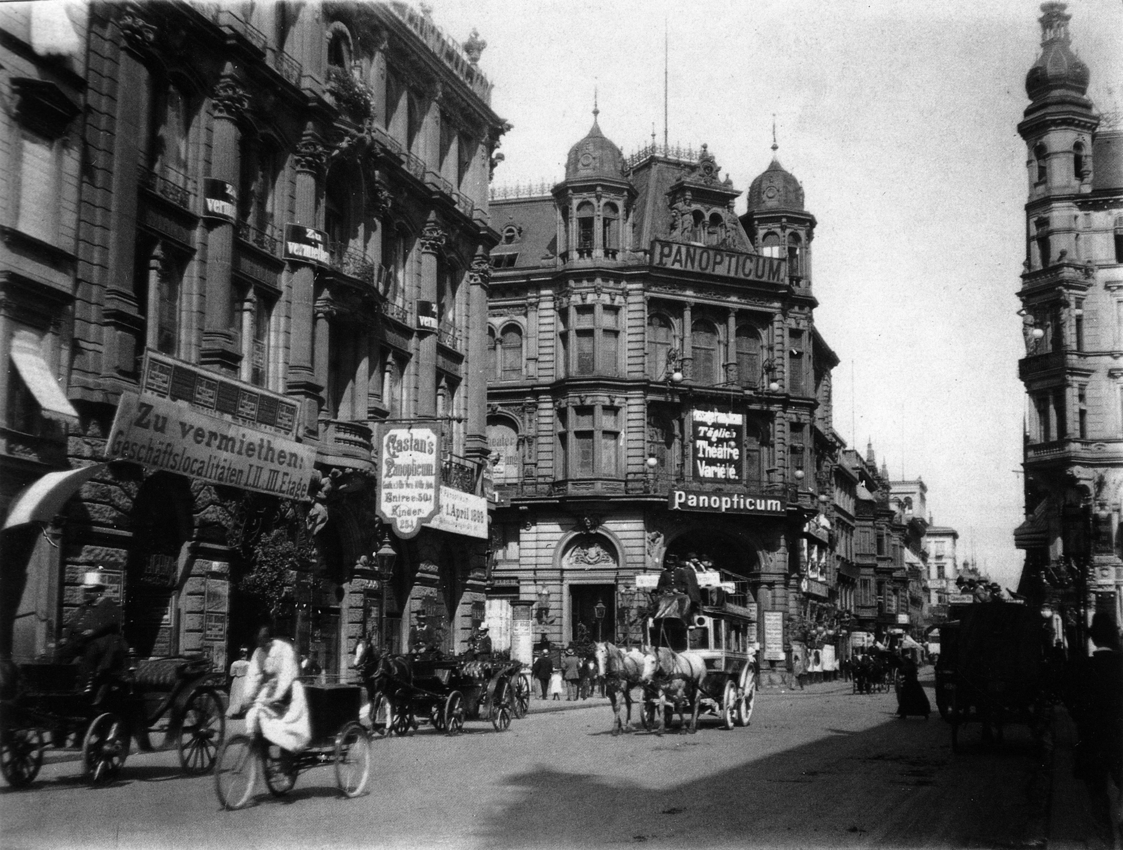 The Kaisergalerie (“Emperor Galery”) in Berlin's Friedrichstraße, on the corner to Behrenstraße. The building was largely destroyed in 1943 by an allied air raid. The place now holds the hotel Westin Grand Berlin.